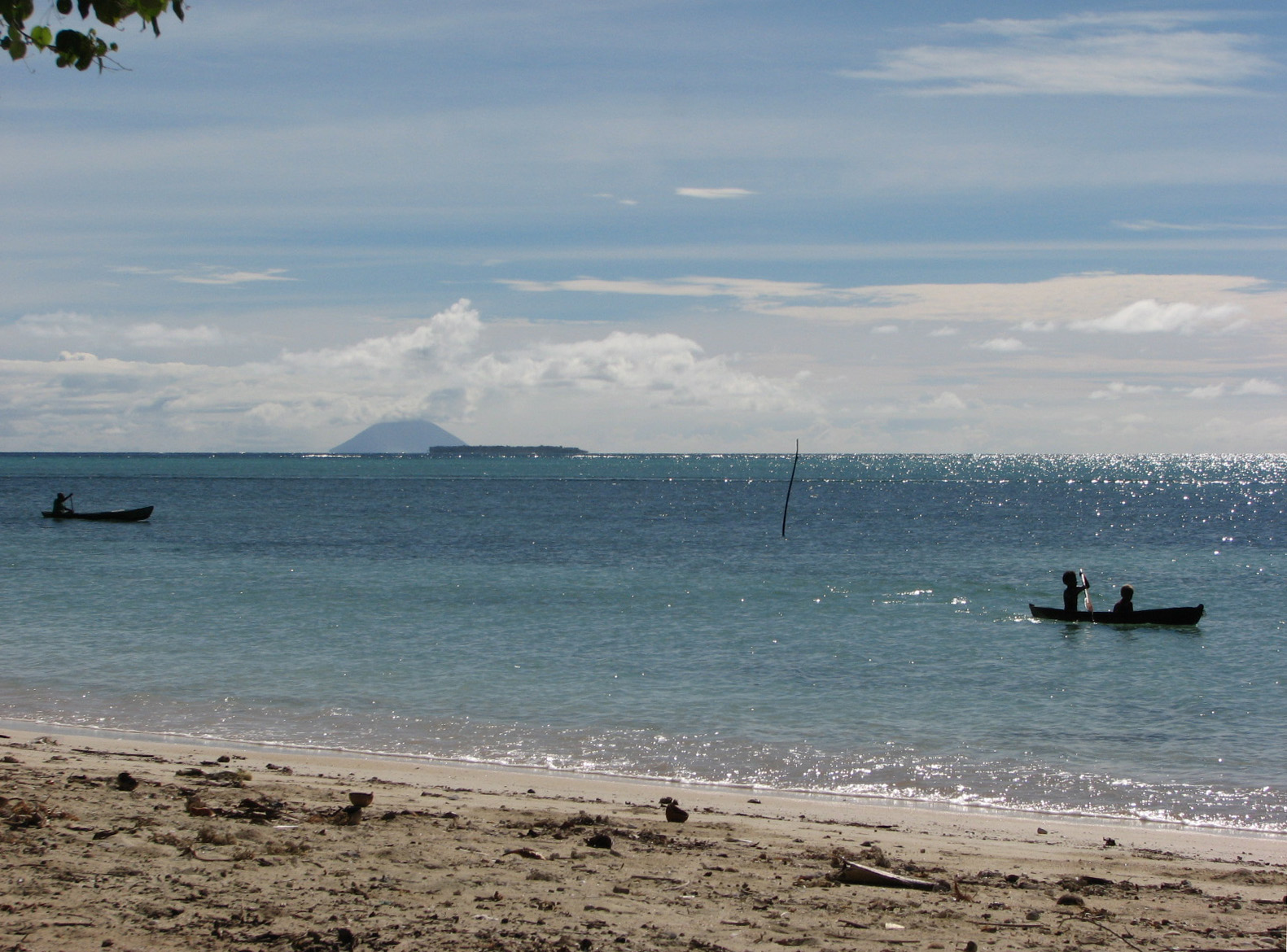 Looking towards the Great Reef from Fenualoa, Reef Islands, Solomon Islands. Active volcano Tinakula in the background.